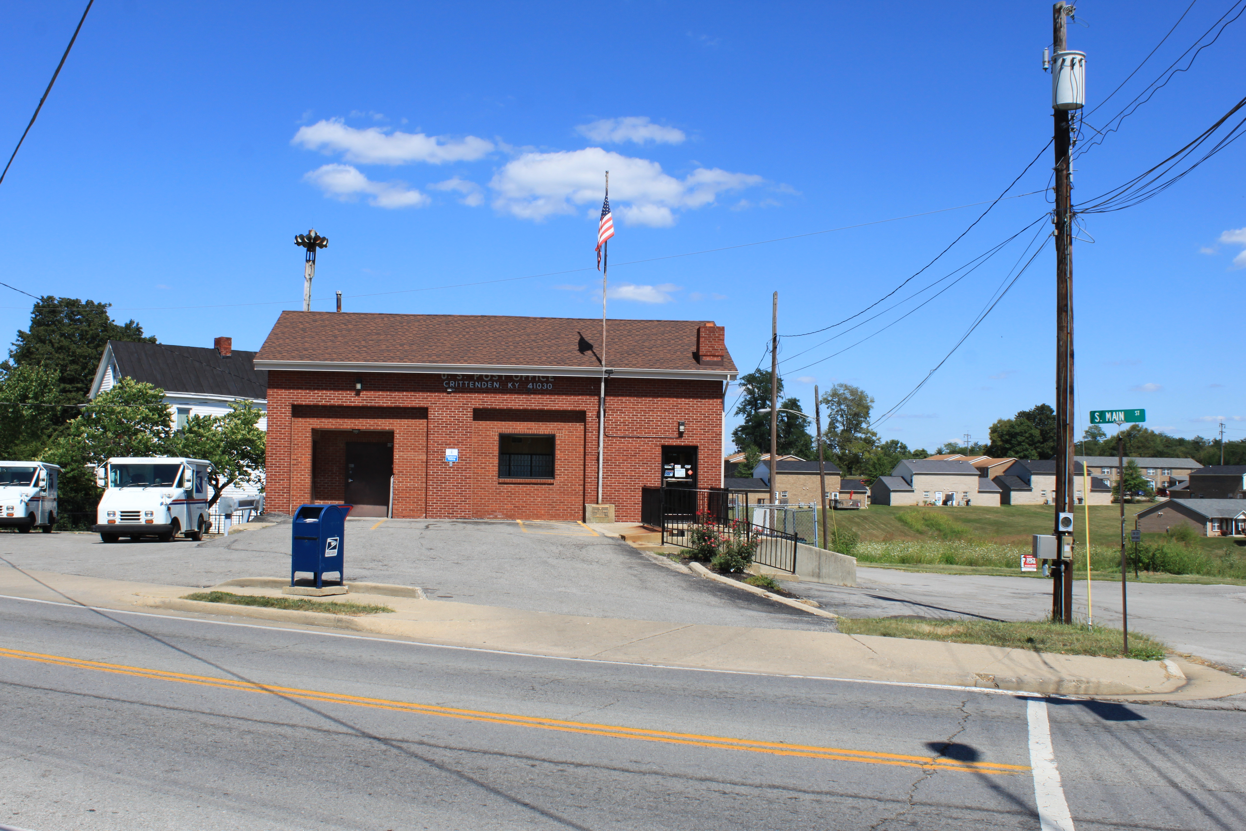 US Post Office, 101 South Main Street, Crittenden, Kentucky.